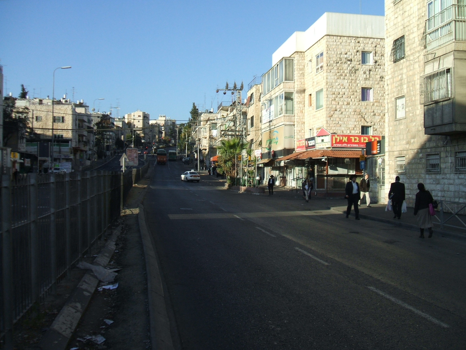 Early morning traffic-free view of Bar-Ilan Street, Jerusalem looking west from Beit HaHayyim Square (Shmuel NaNavi Street).